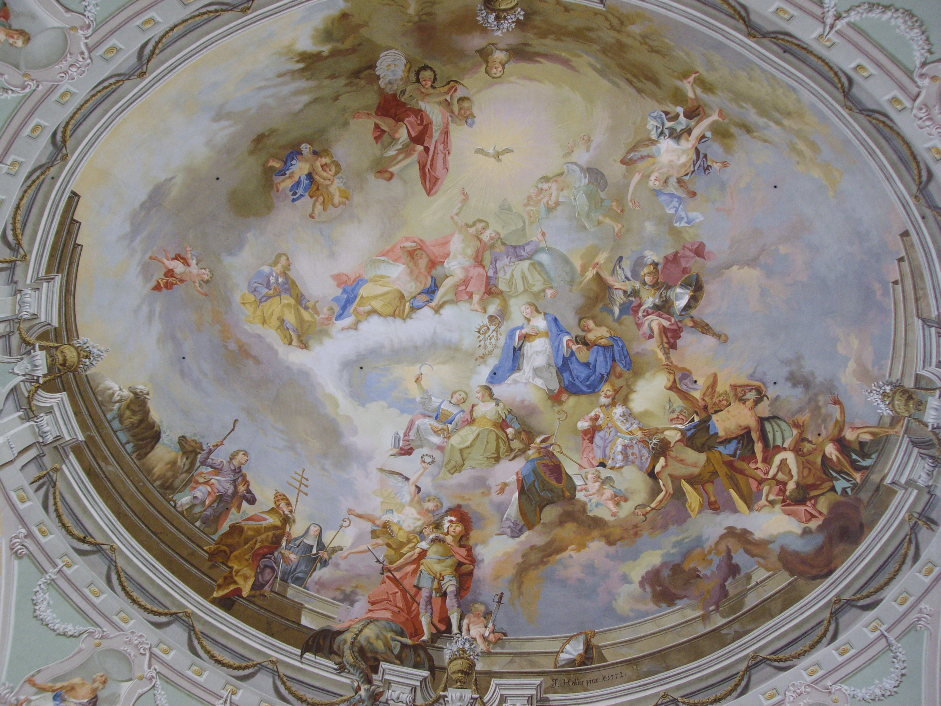 Austria, Tyrol, Neustift im Stubaital, Hl. Georg. The ceiling is formed by three painted false dome by J. Keller, J.A. Zoller and F.J. Haller (1772).